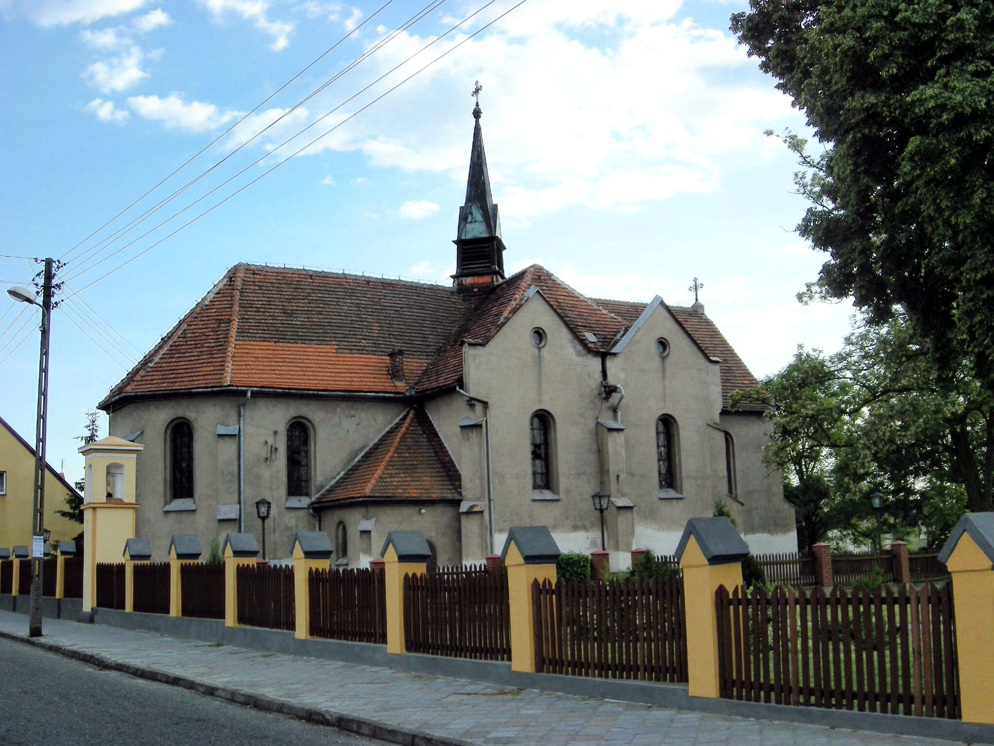 The church in Mieścisko, Poland.